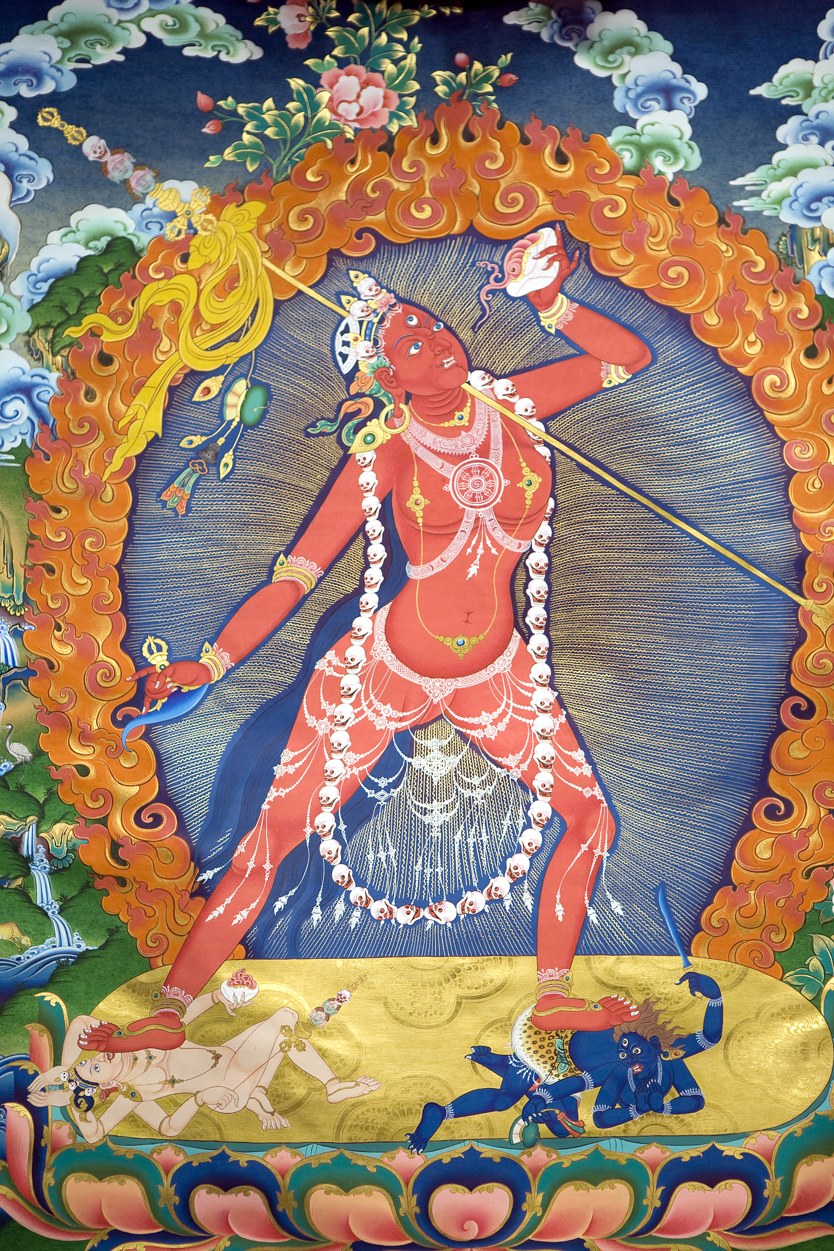 Photograph of a painting of Vajrayoginī in the form of Nāropa's Ḍākinī from a Thangka.